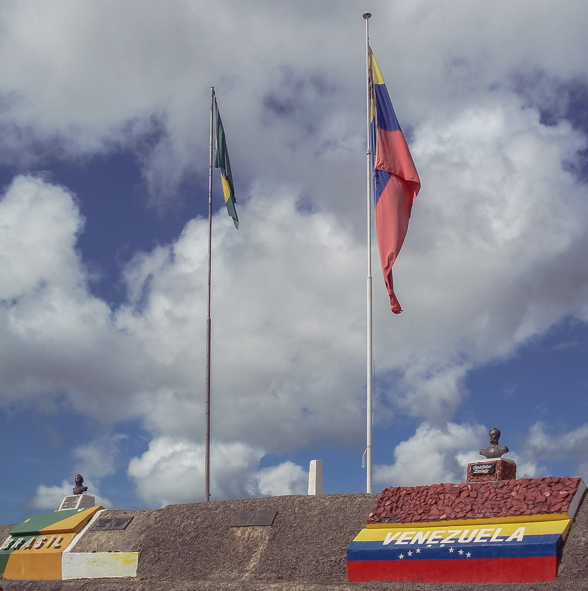 Venezuela-Brazil border in Pacaraima, Brazil